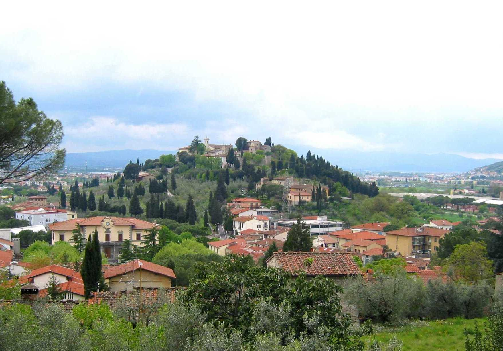 Sight of Calenzano.